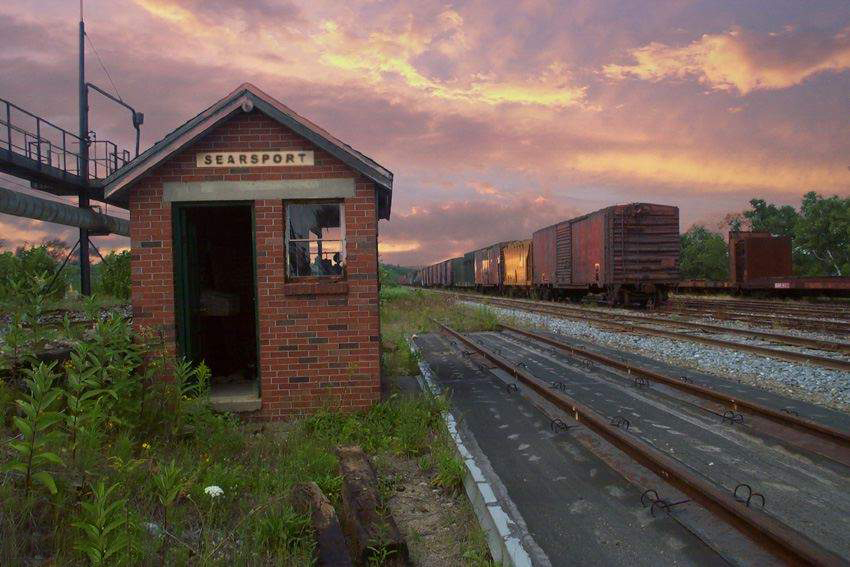 Mack Point Rail Yard, Searsport, Maine ("Original "digital watercolor" illustration created by , the original uploader.)